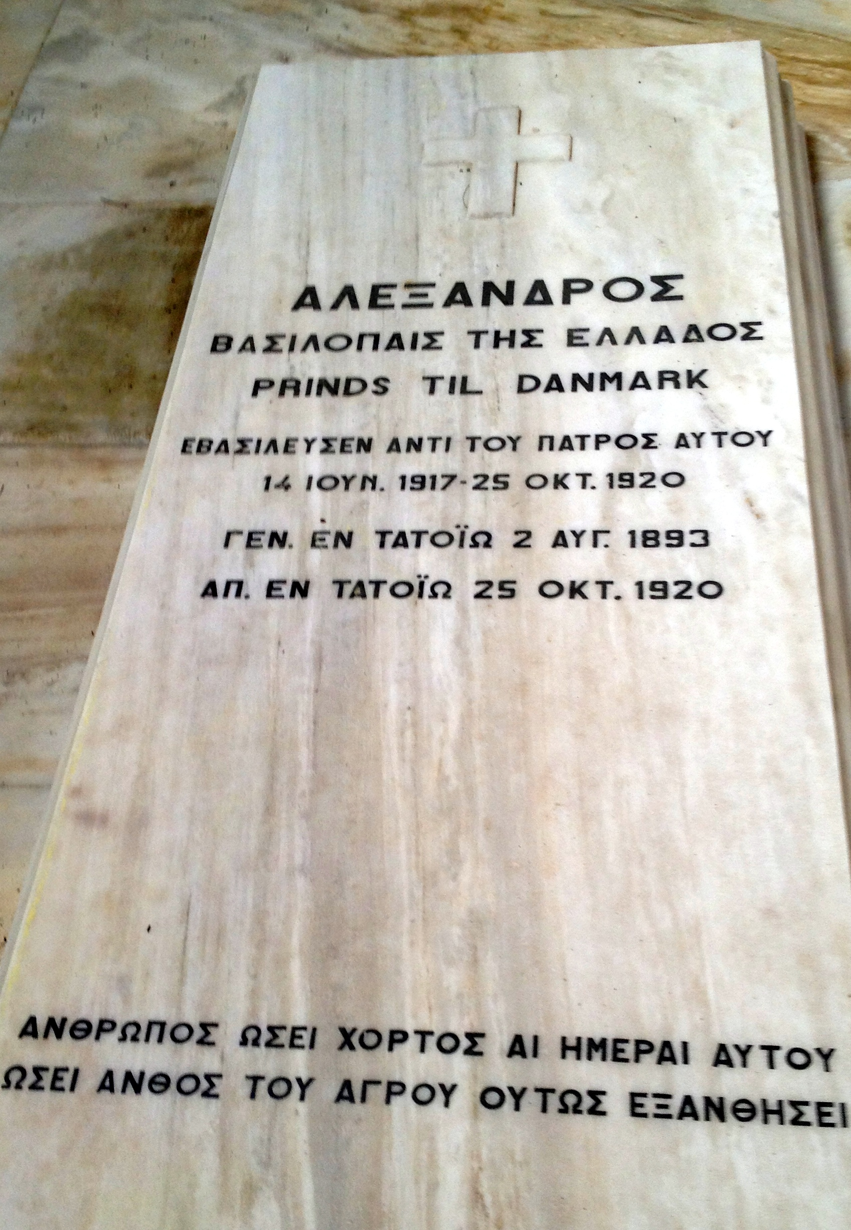 Tomb of Alexander I of Greece Mvskoke: Ο τάφος του βασιλιά Αλεξάνδρου Α' στο Τατόι